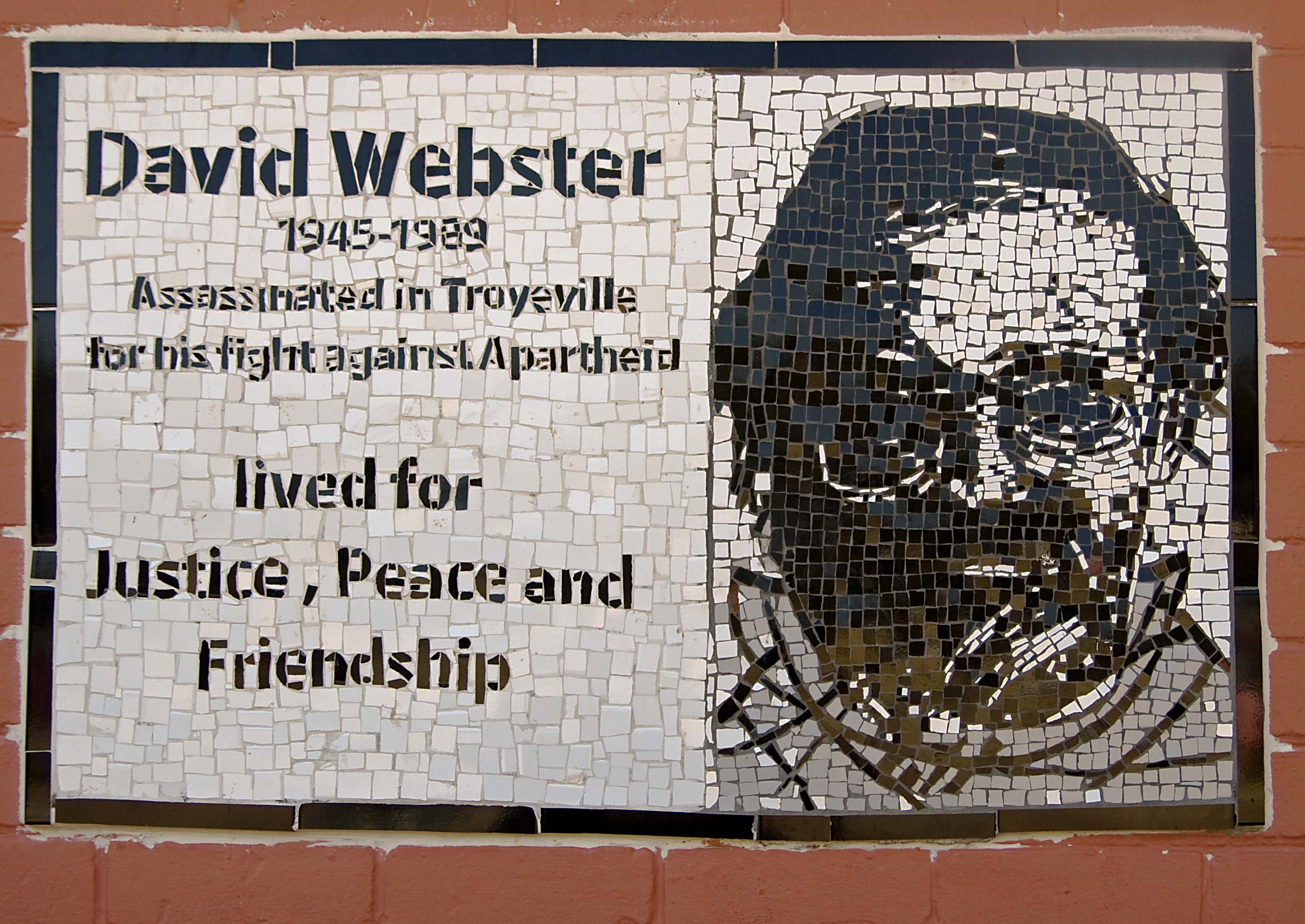 Mosaic of David Webster in David Webster Park which is close to the home where this Anti-Apartheid Activist was assassinated by Ferdi Barnard in 1989 (History 101)